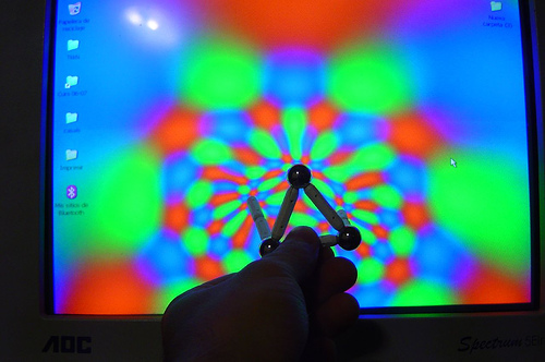 3 neodymium magnets on a crt screen